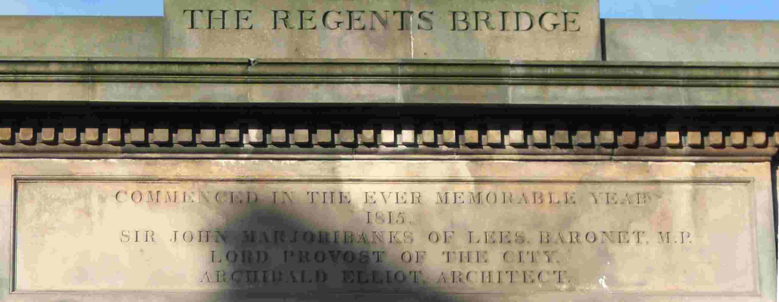 A plaque on the North side of Regent Bridge, Edinburgh